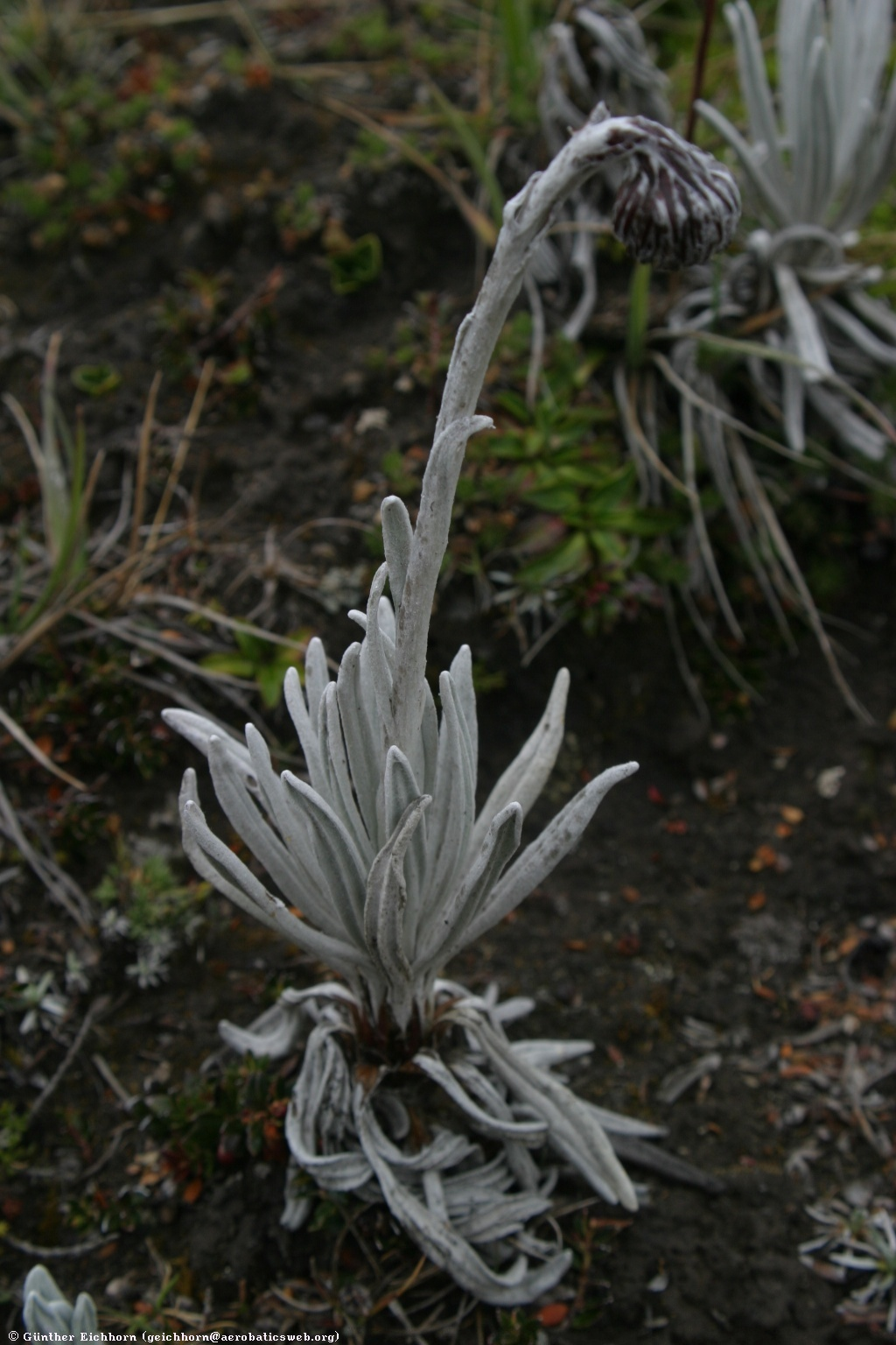 Senecio nivalis on Cotopaxi, Ecuador